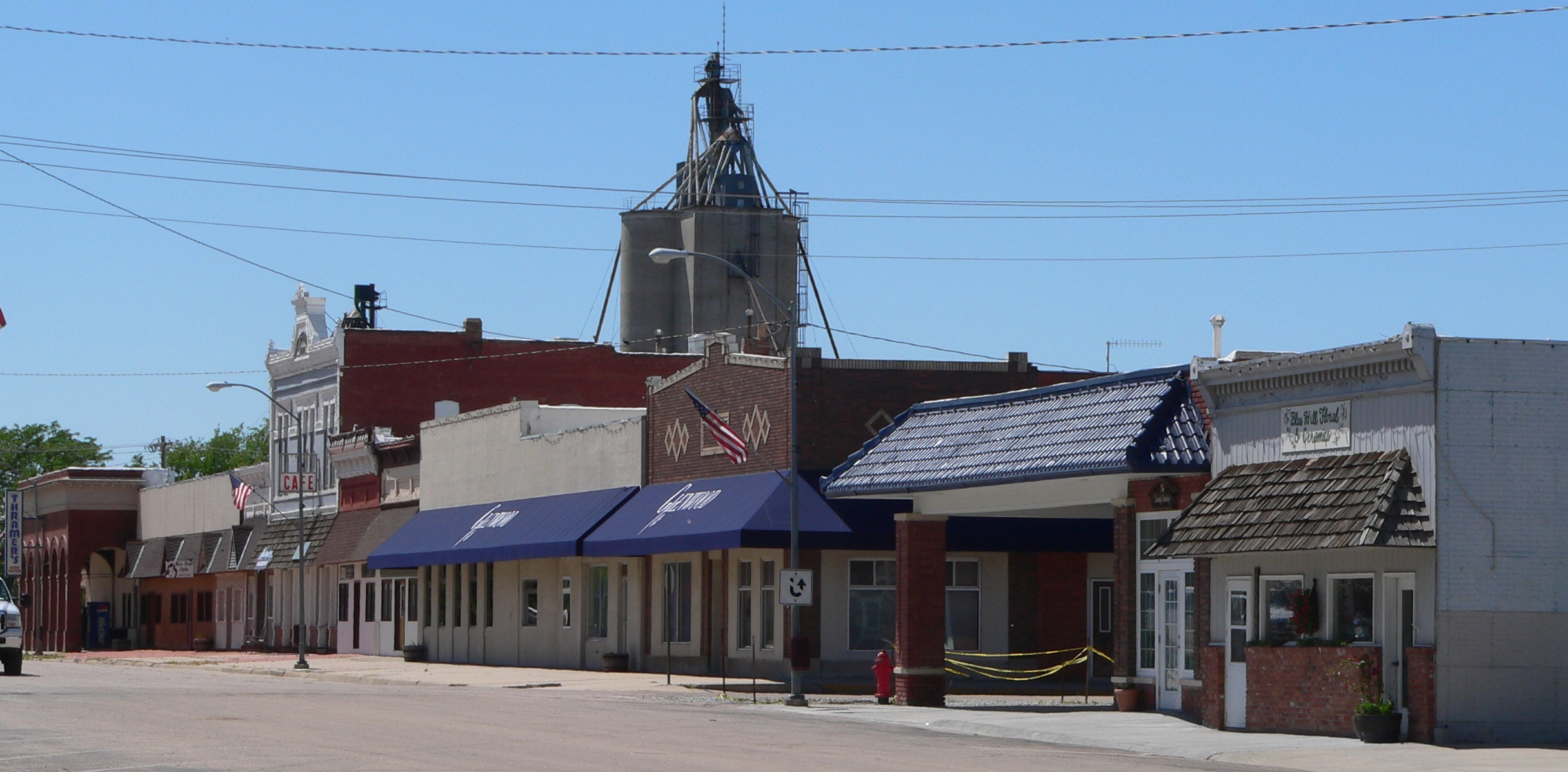 Downtown Blue Hill, Nebraska: north side of West Gage Street, looking west from about Pine Street.